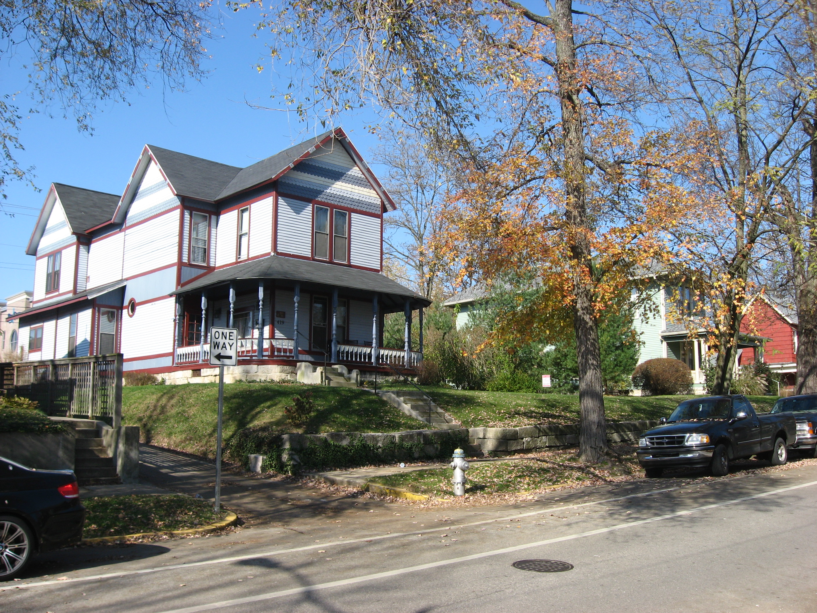 Houses on the western side of the 400 block of N. Washington Street in Bloomington, Indiana, United States. This block is part of the North Washington Street Historic District, a historic district that is listed on the National Register of Historic Places.